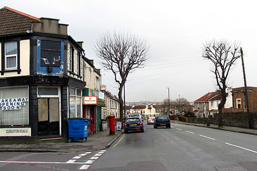 B4465 Whitehall Road, Bristol